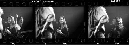 Here is depicted a piece of ILFORD HP5 safety film after it had been digitally converted into a positive image. That shot was taken free hand with a 1.8/105 mm objective in an available light situation.